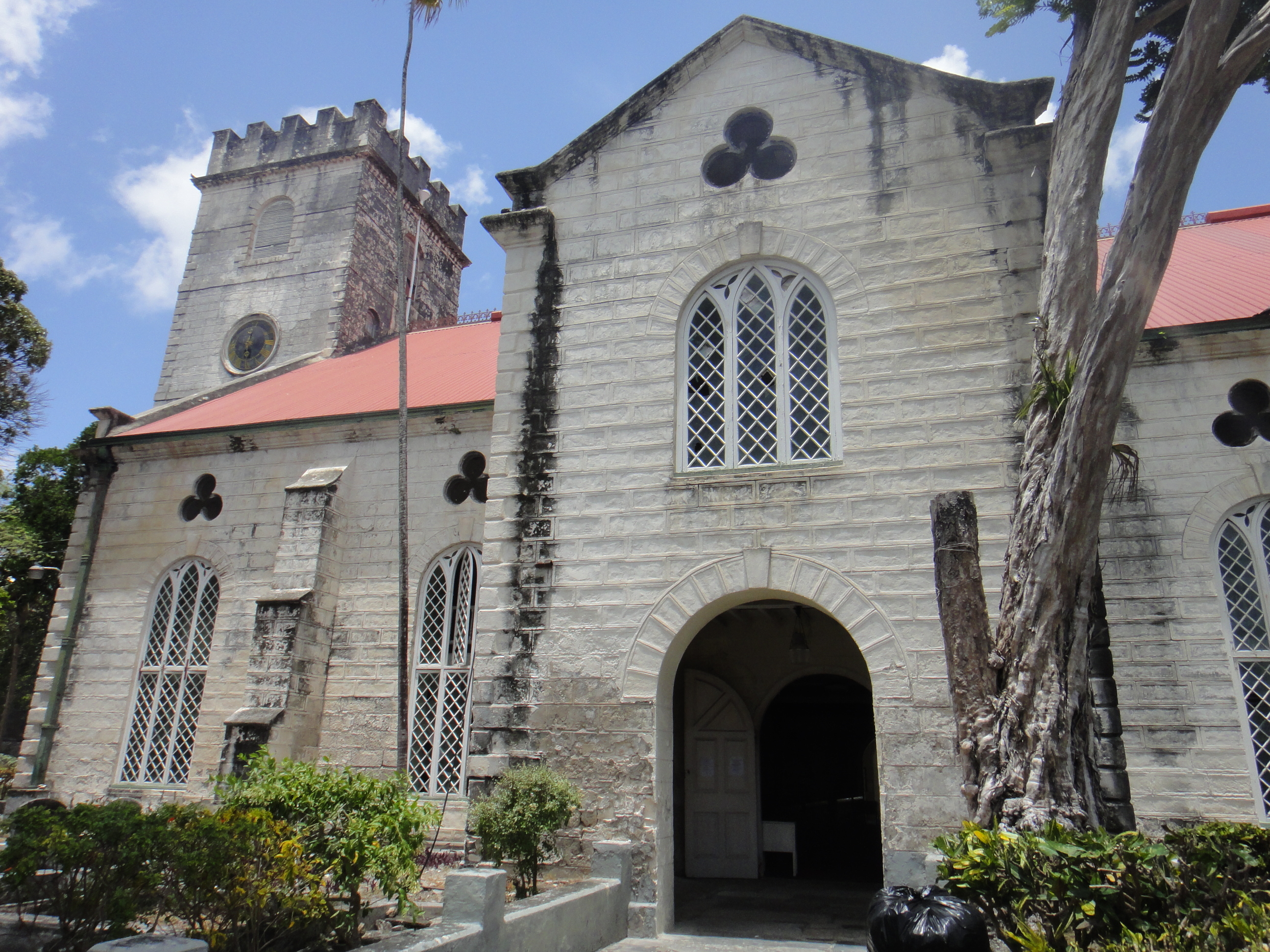 Historic Bridgetown and its Garrison (Barbados)